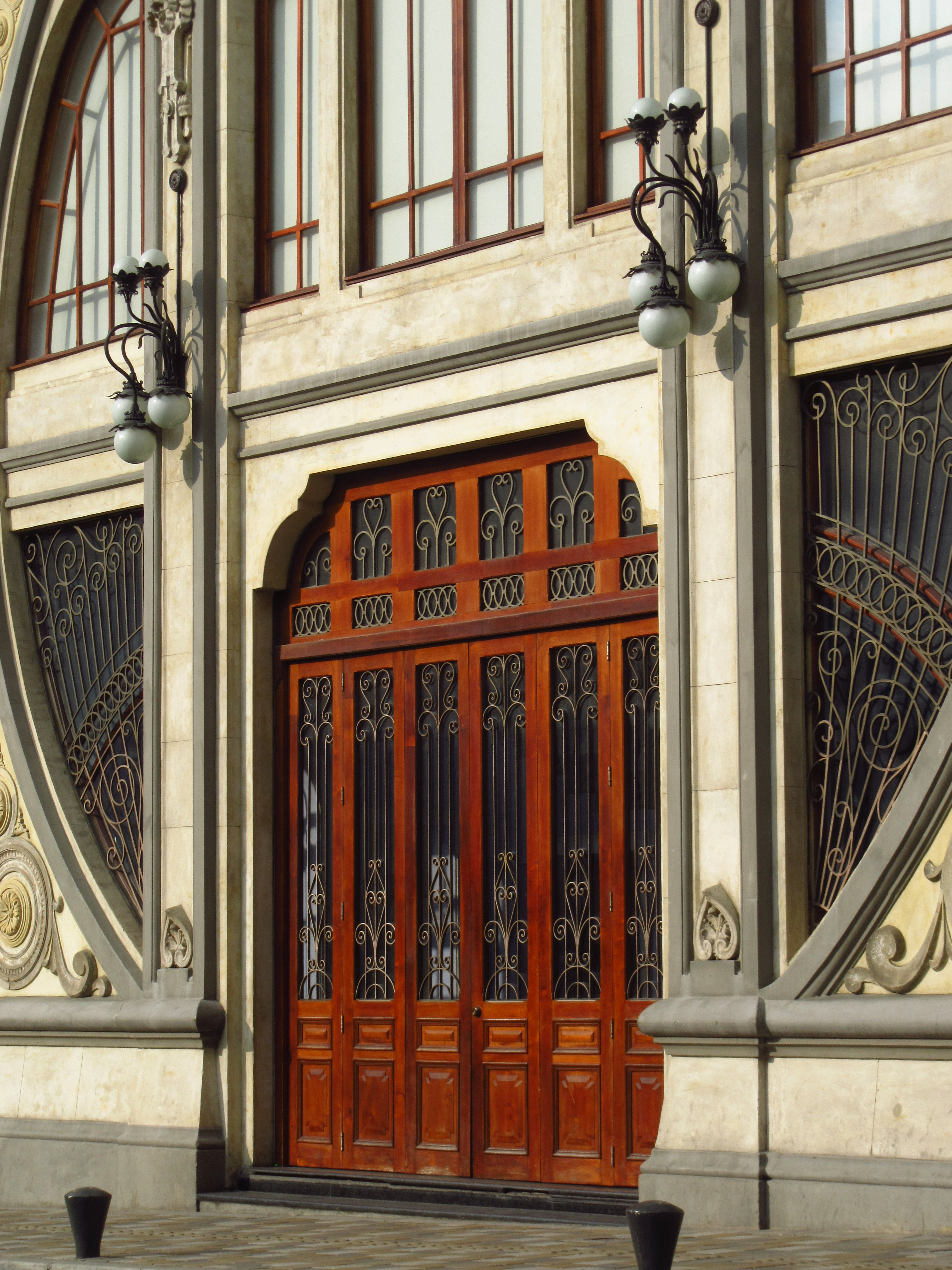 Bogotá